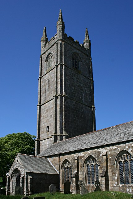 Linkinhorne Parish Church This church has a very tall four stage tower. It is dedicated to St Mellor. The church does not sit in a substantial village but in a "Churchtown" which is really a hamlet.